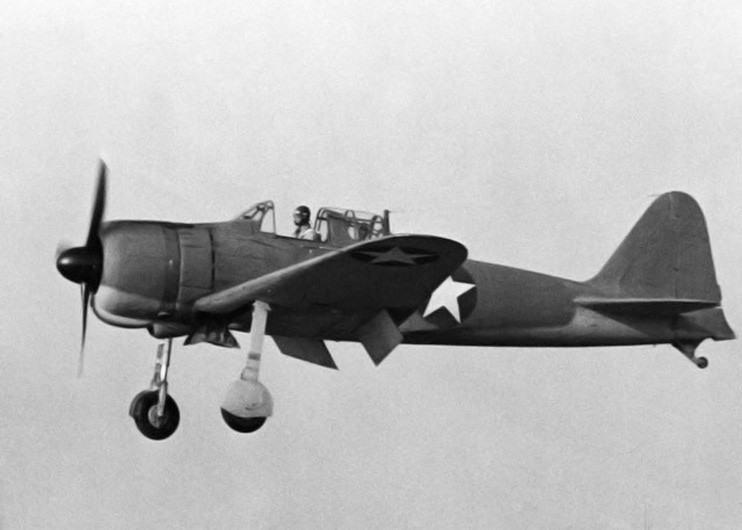 An Imperial Japanese Navy Zero fighter captured by US military forces flies over San Diego California in US Army Air Force markings. The Zero, piloted by Tadayoshi Koga, crashed on Akutan Island, Alaska on June 4, 1942 after participating in an air raid on Dutch Harbor. Koga was killed in the crash.